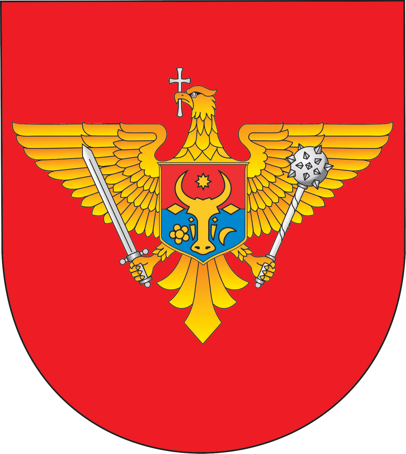 Armed Forces of Moldova CoA